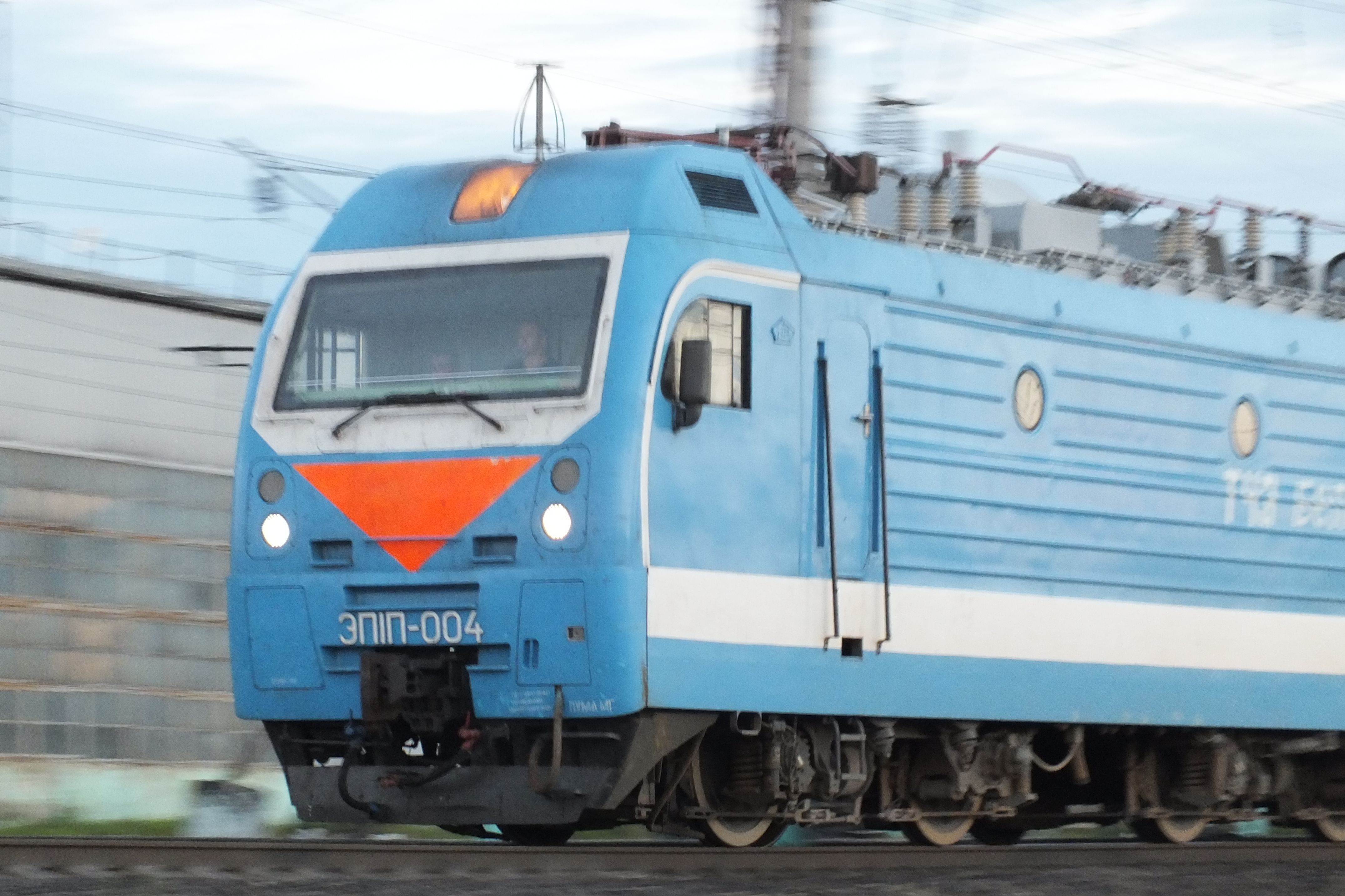 Electric locomotive EP1